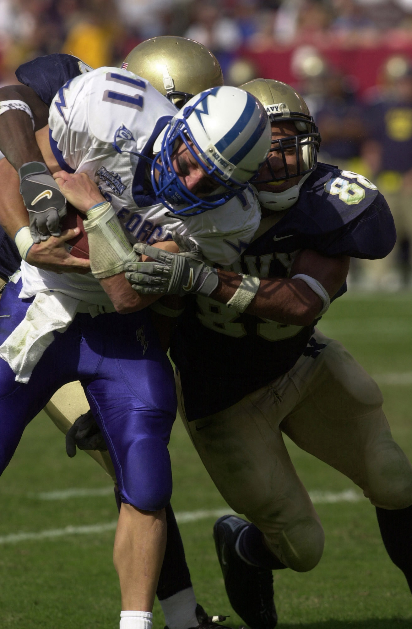 031004-N-6157F-004 Landover, Md. (Oct. 4, 2003) Air Force Academy senior quarterback Chance Harridge is wrapped up by Navy freshman linebacker David Mahoney and a teammate. Navy upset Air Force 28-25 in the inter-service game at FedEx field in Landover, Md. The Midshipmen snapped a six-game losing streak to the Falcons with the victory. The victory put Navy in excellent position to win the Commander-In-Chief's Trophy, awarded to the team with the best record in games between the three major service academies. The trophy will be up for grabs when Navy plays Army Dec. 6. U.S. Navy photo by Journalist 1st Class Mark D. Faram.